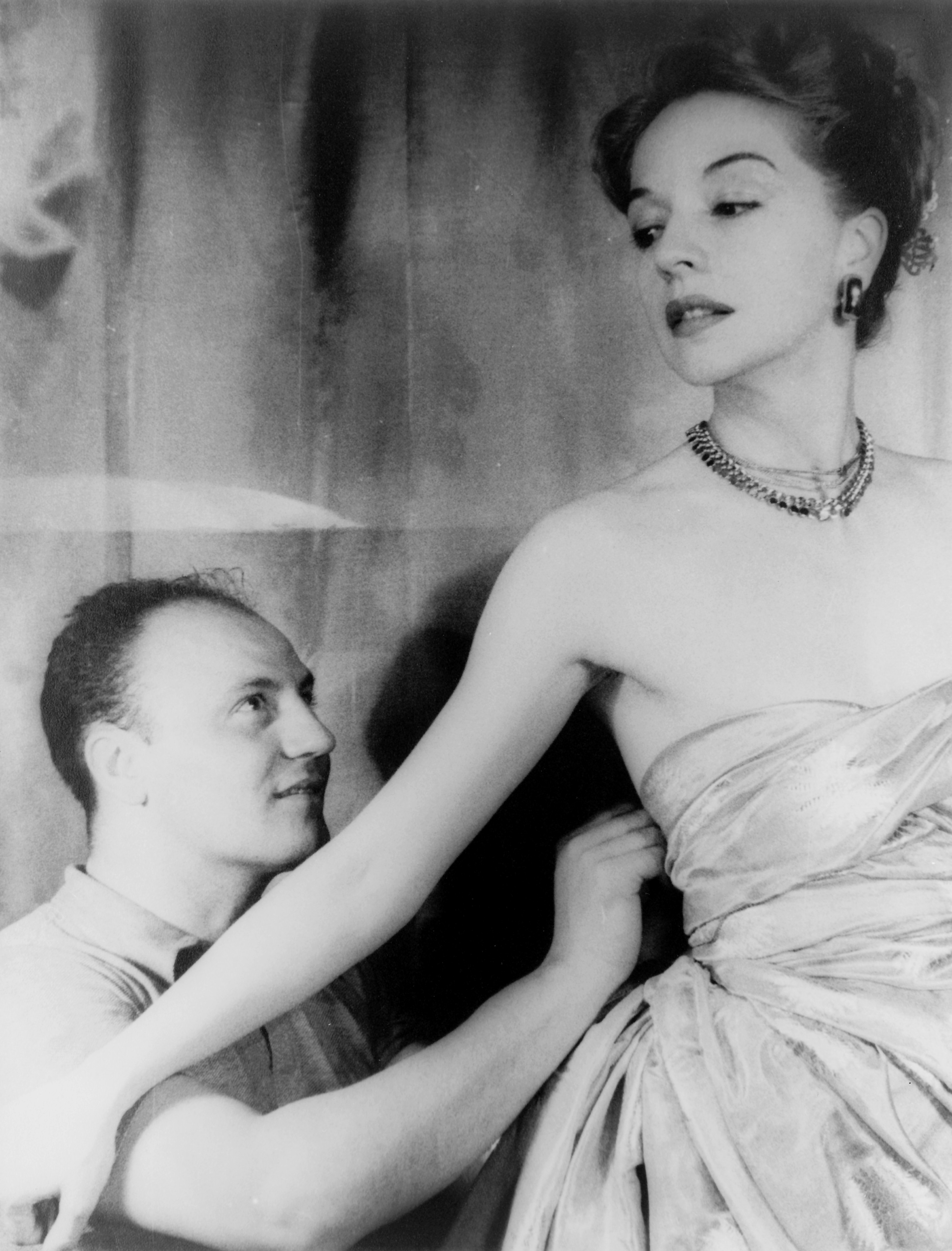 Fashion designer Pierre Balmain fitting haute couture gown on actress Ruth Ford. Photographed by Carl Van Vechten, on 9 November 1947. Portrait of Pierre Balmain and Ruth Ford making a dress